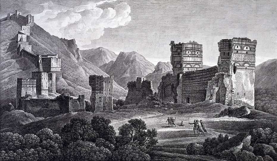 Antioch, Turkey: towers of a ruined castle, with a fortified wall. Engraving by M. Picquenot after L.F. Cassas